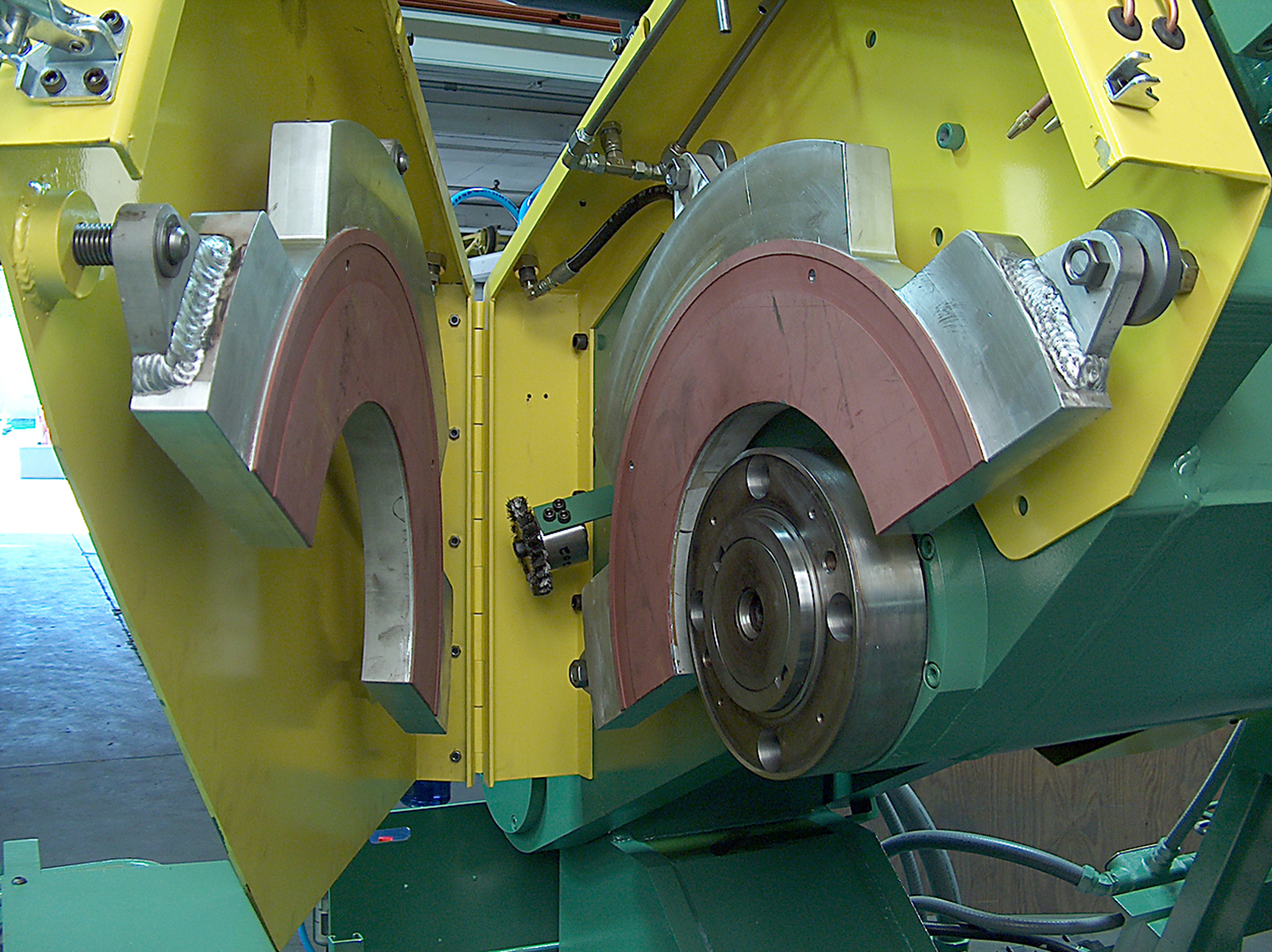 Segmental adjustable plotter guide and stabilizes the balde on both sides